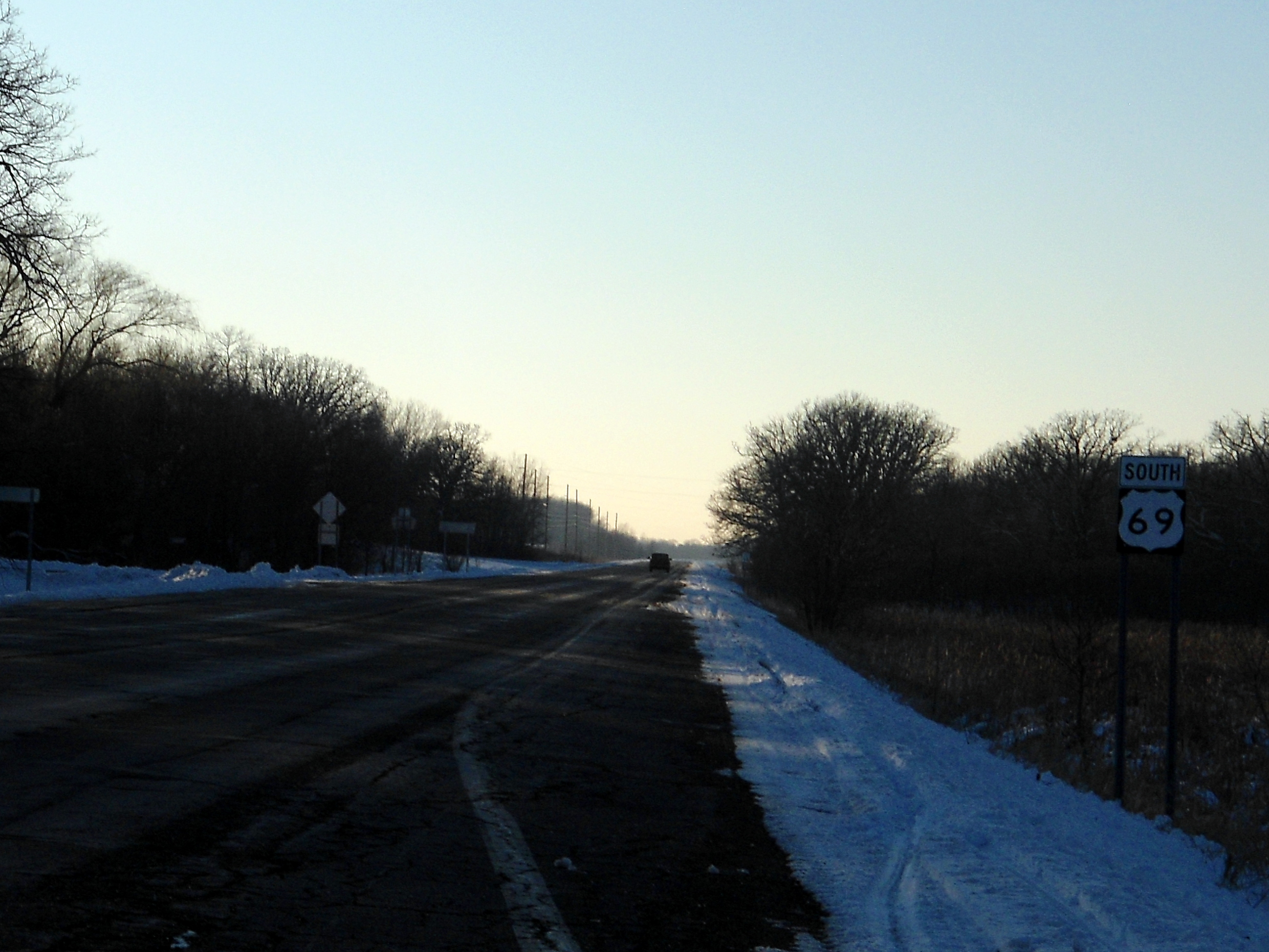 US 69 runs south (although facing west) in Twin Lakes, MN